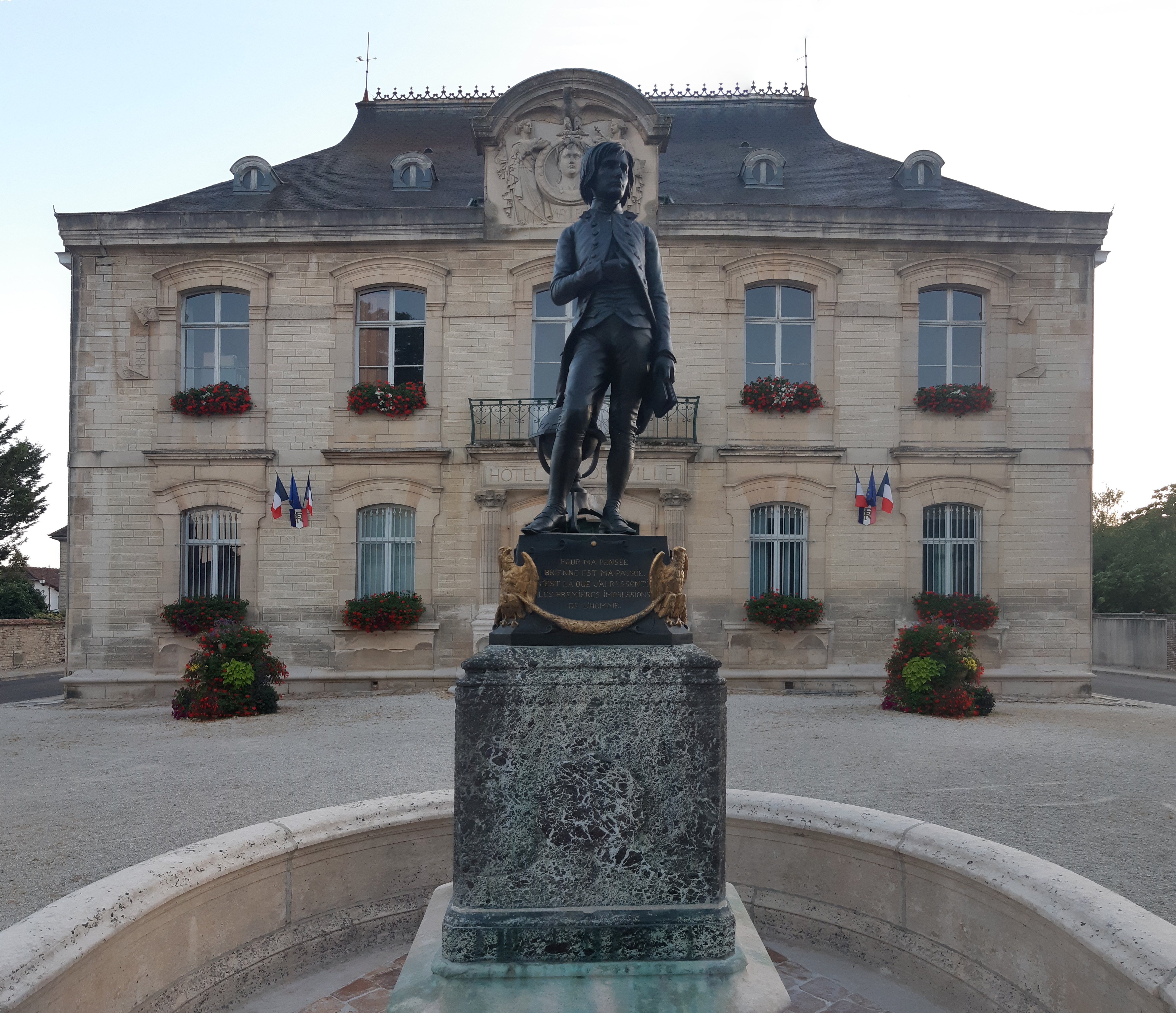 Hôtel de Ville in Brienne-le-Château, (France)